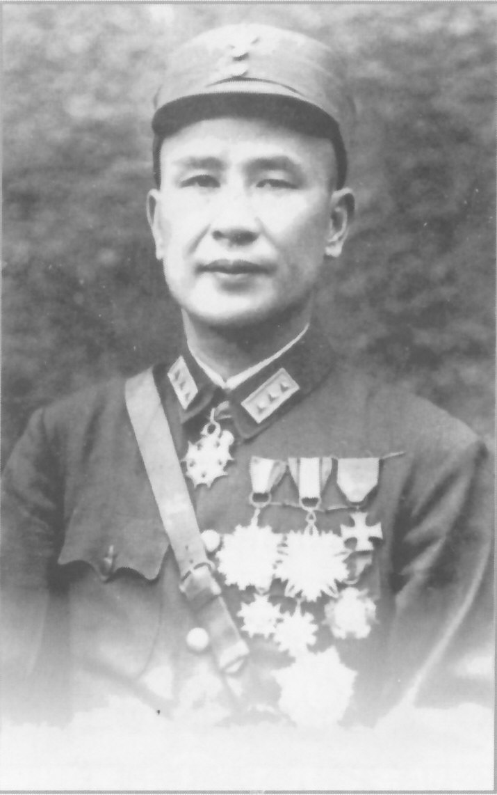 Bai Chongxi (1893 - 1966)